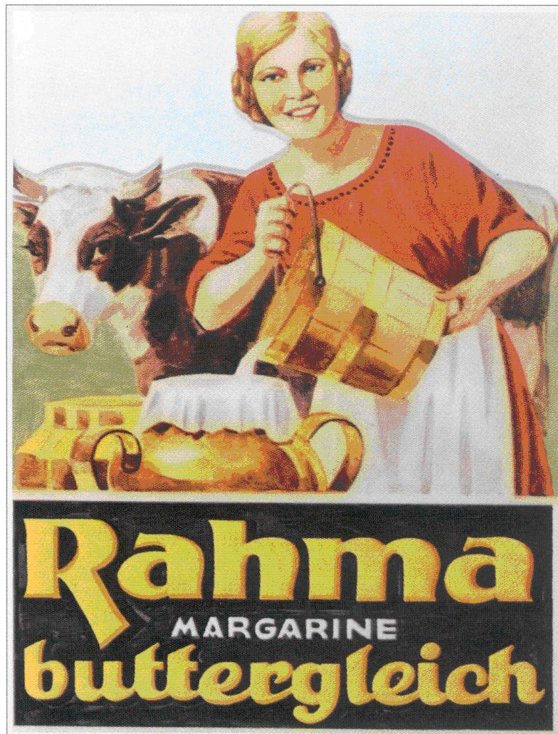 Rama photo